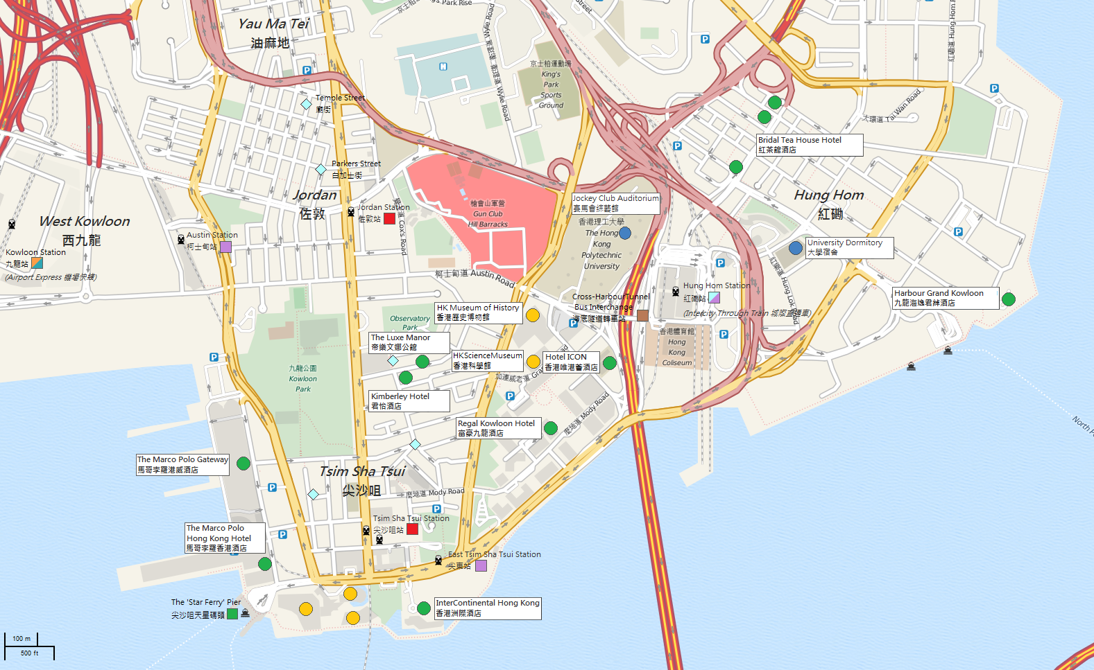 An overview map of Tsim Sha Tsui surroundings, associated with the proposed conference location of Wikimedia 2013 Hong Kong bid. Legend of map: Blue Circle - University Property Green Circle - Suggested hotels Yellow Circle - Museums Aqua Rhombus - Suggested location of local social activity and interest Rectangle - Transport, coloured with related operator symbolic colour whereas appropriate.